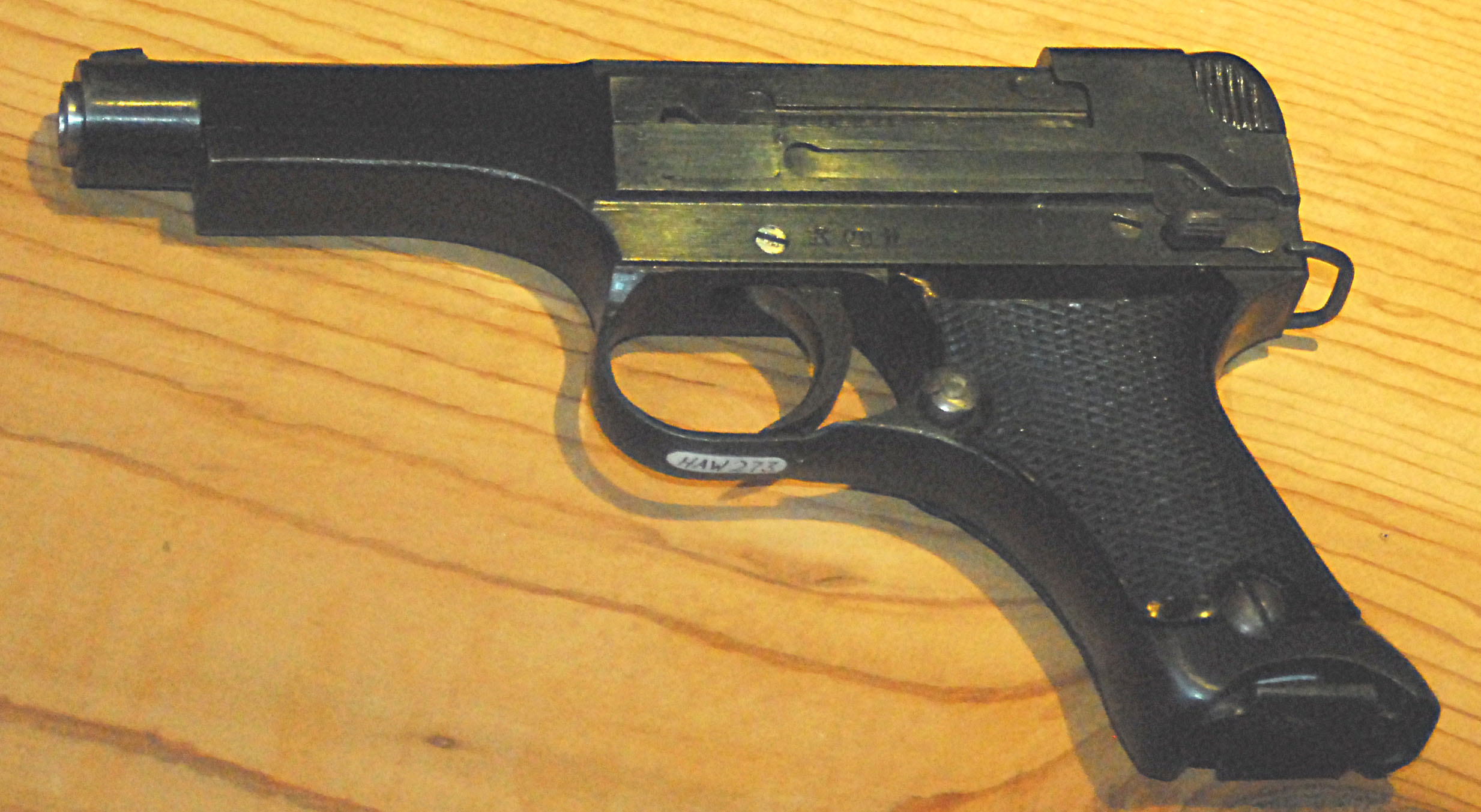 Automatic Pistol Type 94 8mm